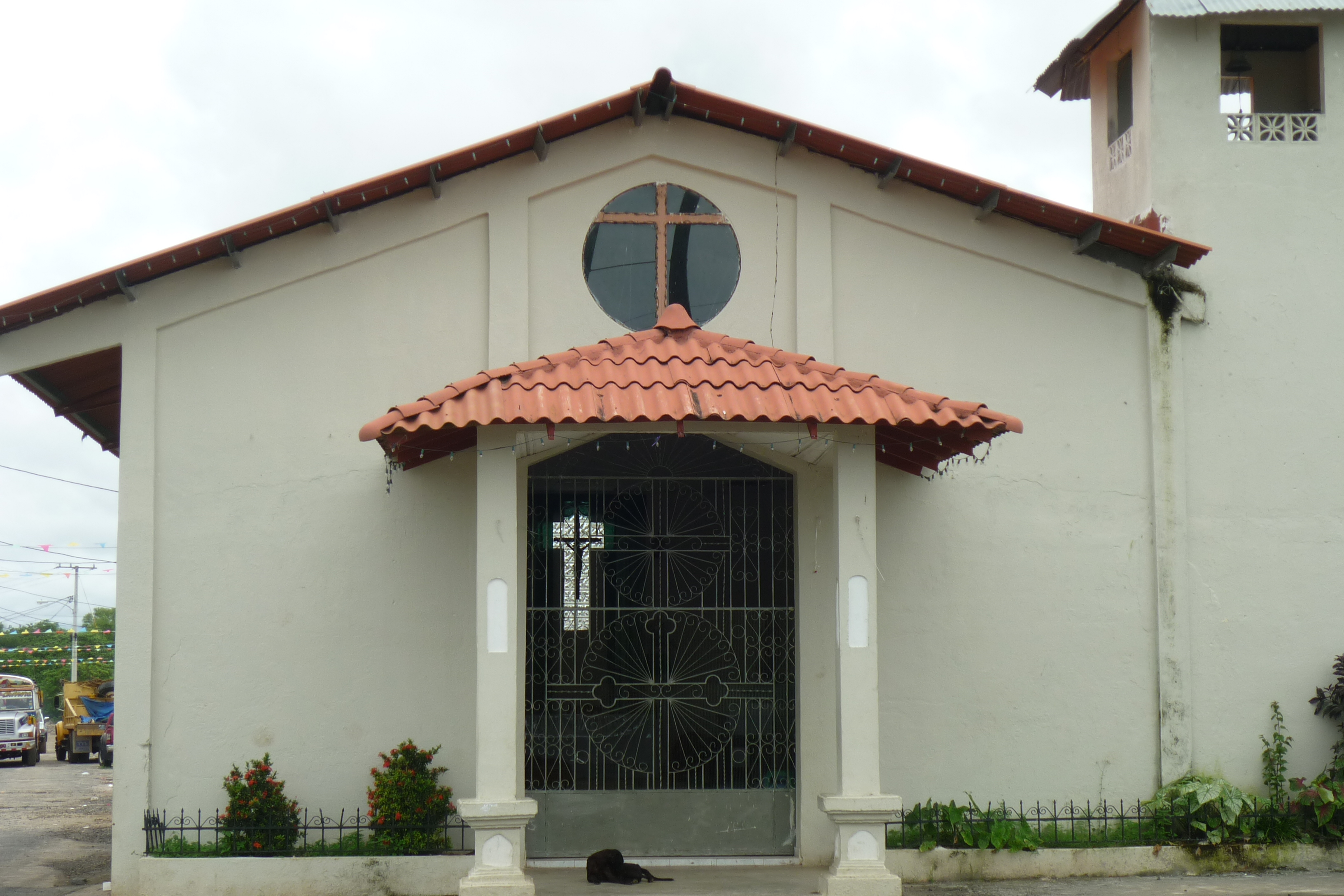 Puerto caimito catholic chcurch